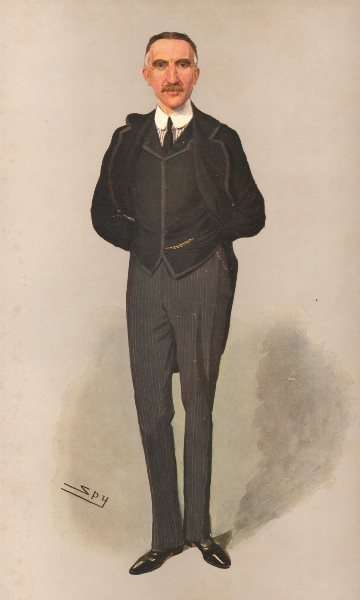 Men of the Day No.1137: Caricature of Sir Charles Bright FRSE. Caption reads: "Submarine Telegraphs"